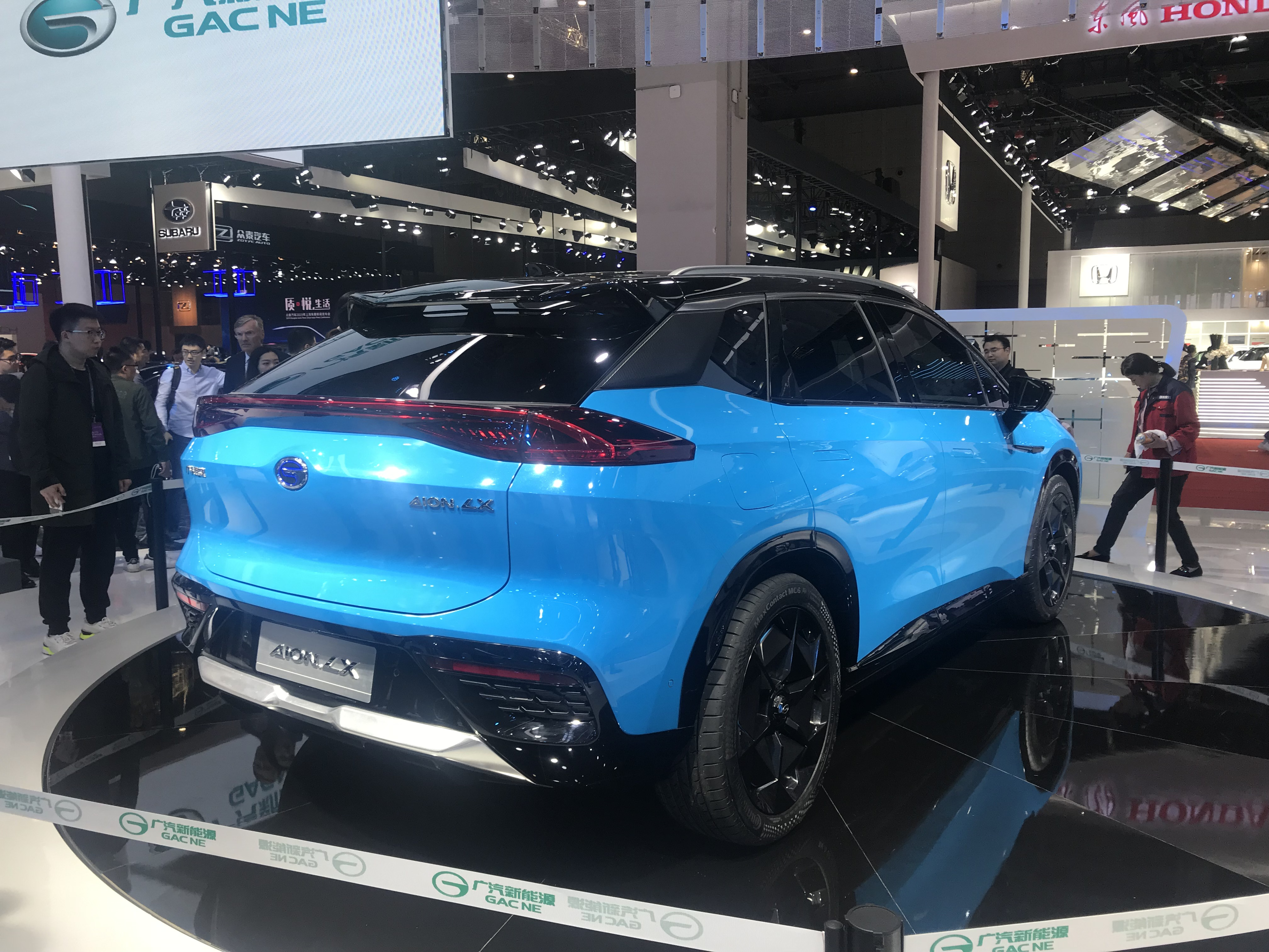 GAC Aion LX